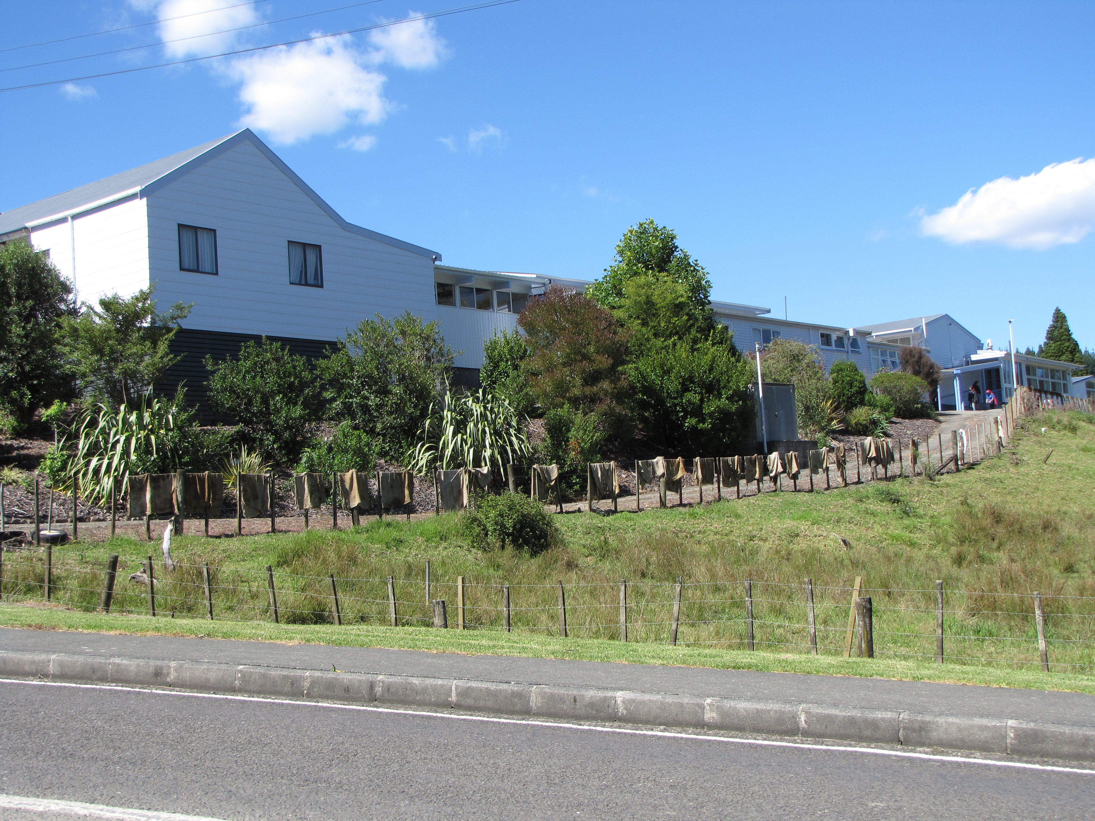 Broadwood Area School covers both primary and secondary education. Broadwood is a town in Northland, New Zealand.